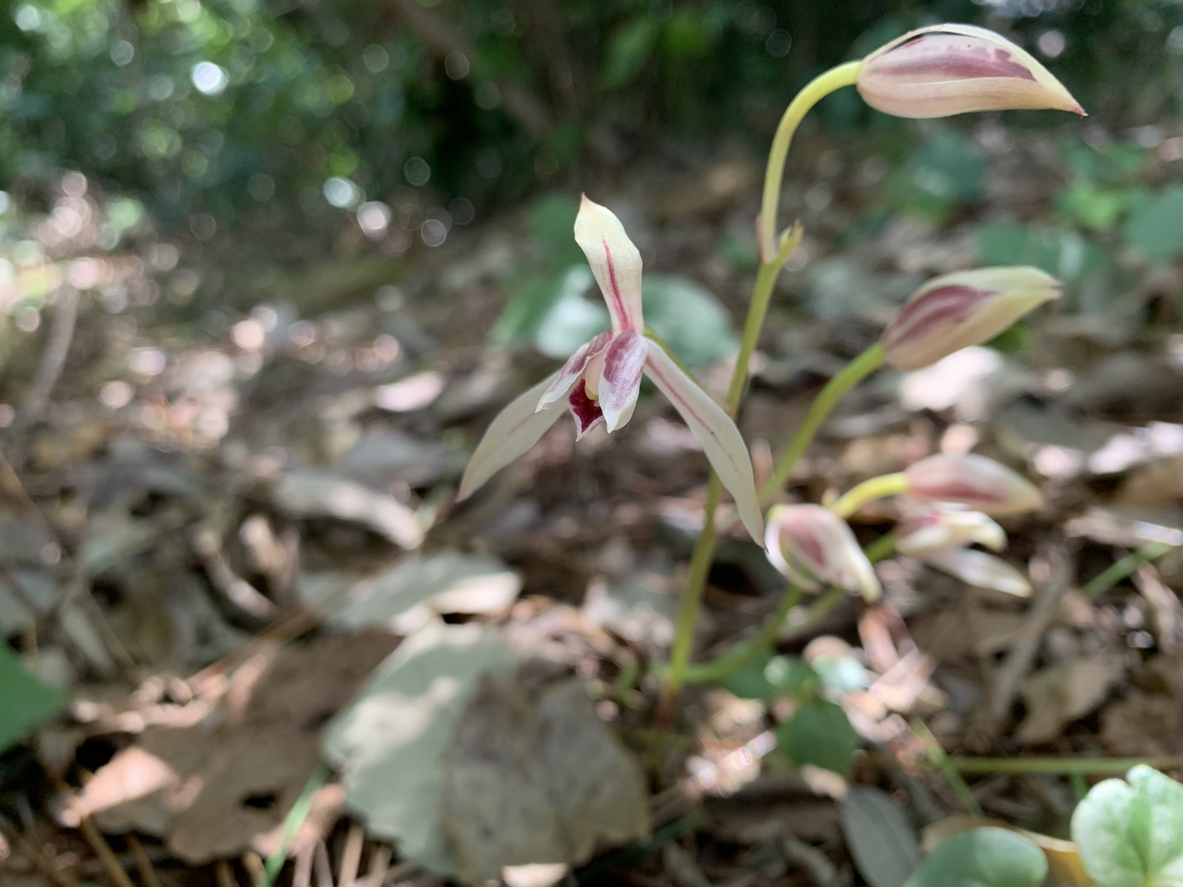 Cymbidium macrorhizon in the Institute for Nature Study, Tokyo